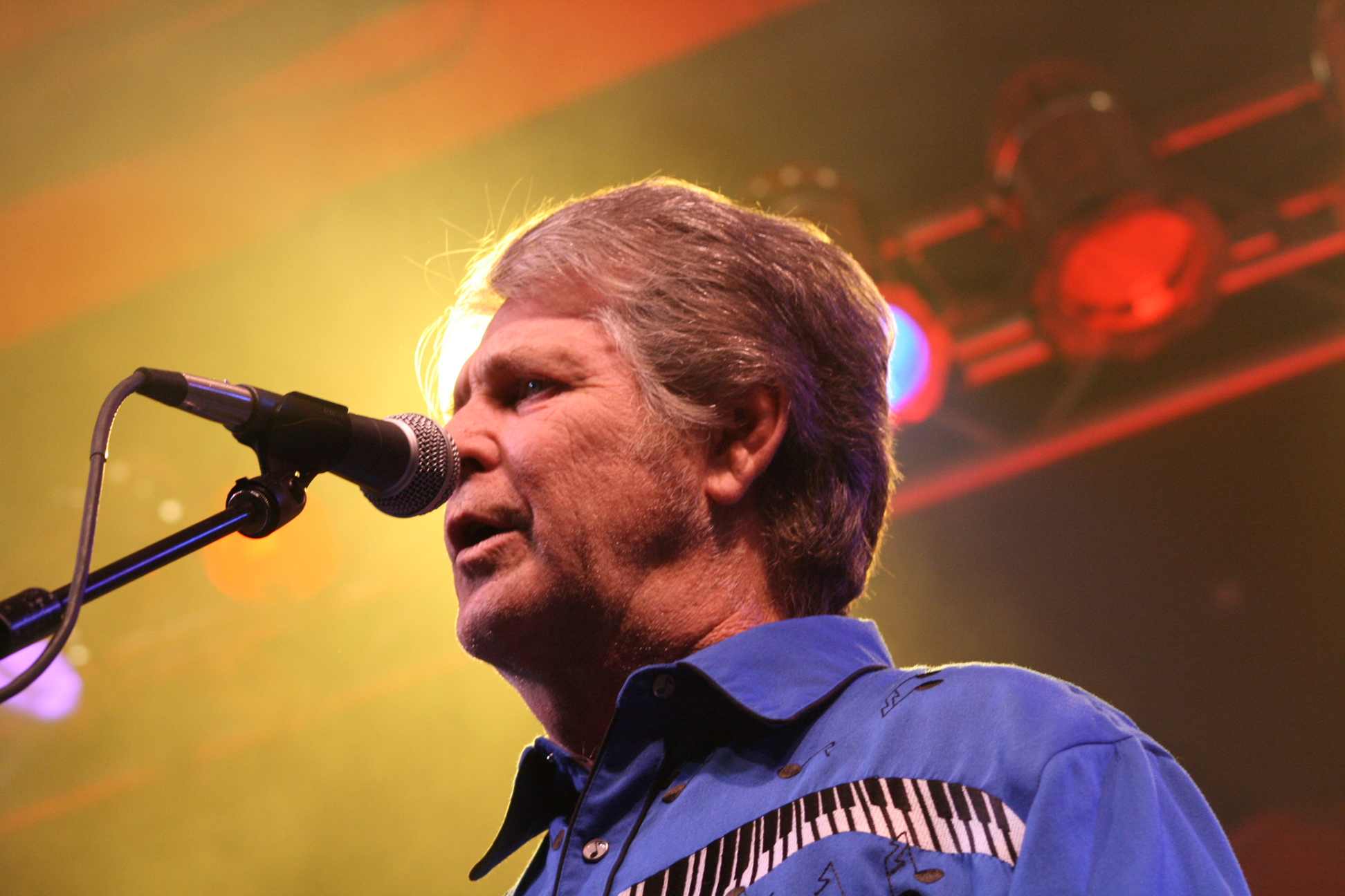 Brian Wilson during a performance at the Consumer Electronics Show in Las Vegas.